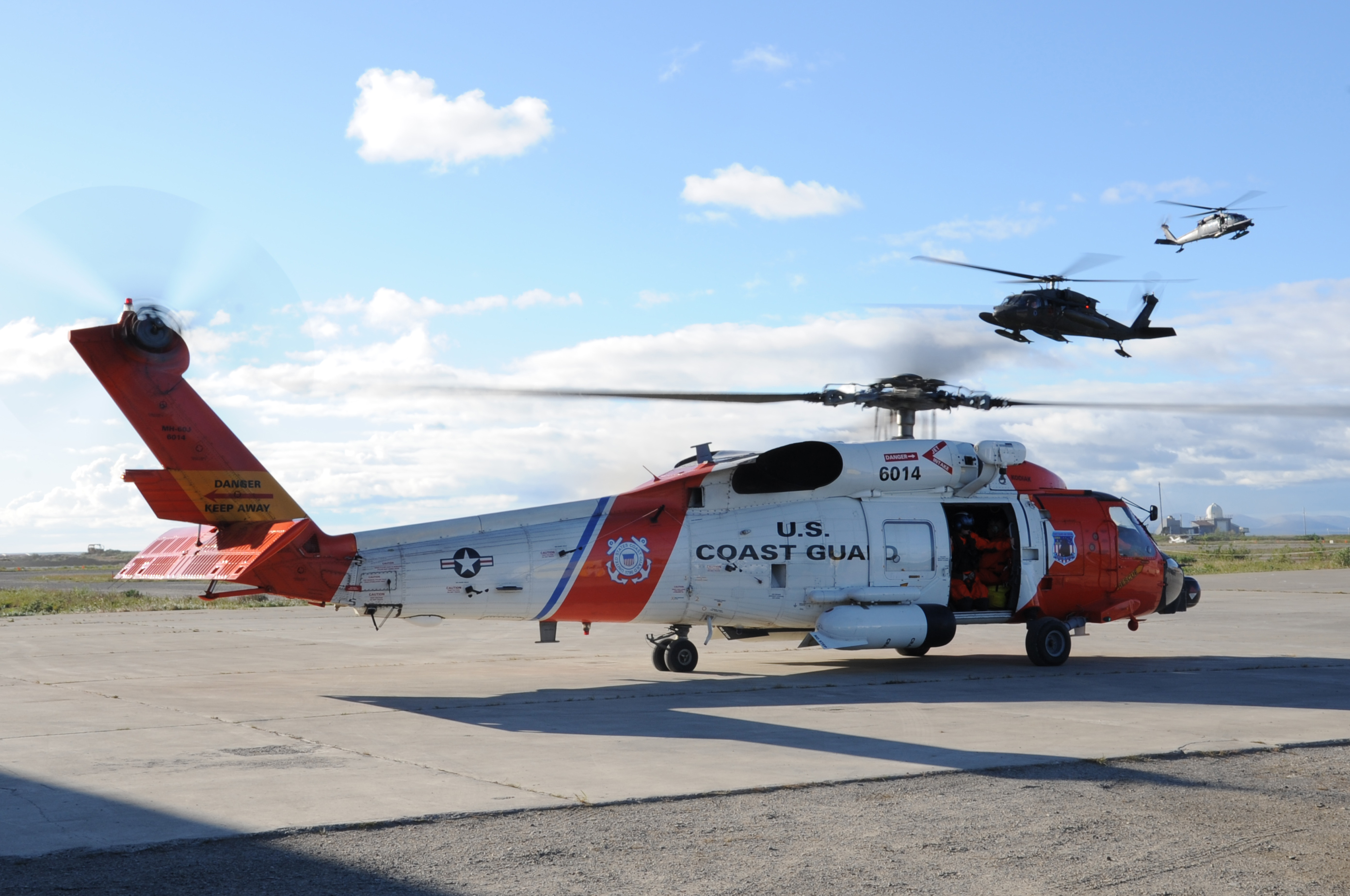 US Coast Guard MH-60 Jayhawk in Kotzebue, Alaska. Also pictured are an Army National Guard UH-60 Blackhawk and an Air Force National Guard HH-60 Pavehawk helicopter. A Coast Guard MH-60 Jayhawk rescue helicopter lands on the tarmac as an Army National Guard UH-60 Black Hawk and an Air Force National Guard HH-60 Pave Hawk prepare to land at Forward Operating Location Kotzebue, Alaska, with personnel deployed in support of Operation Arctic Crossroads Aug. 8, 2010. Helicopter crews transported personnel to remote northwestern Alaskan villages including Point Hope, Koyuk, Wales, Selawik, Shishmaref, and Kivalina.